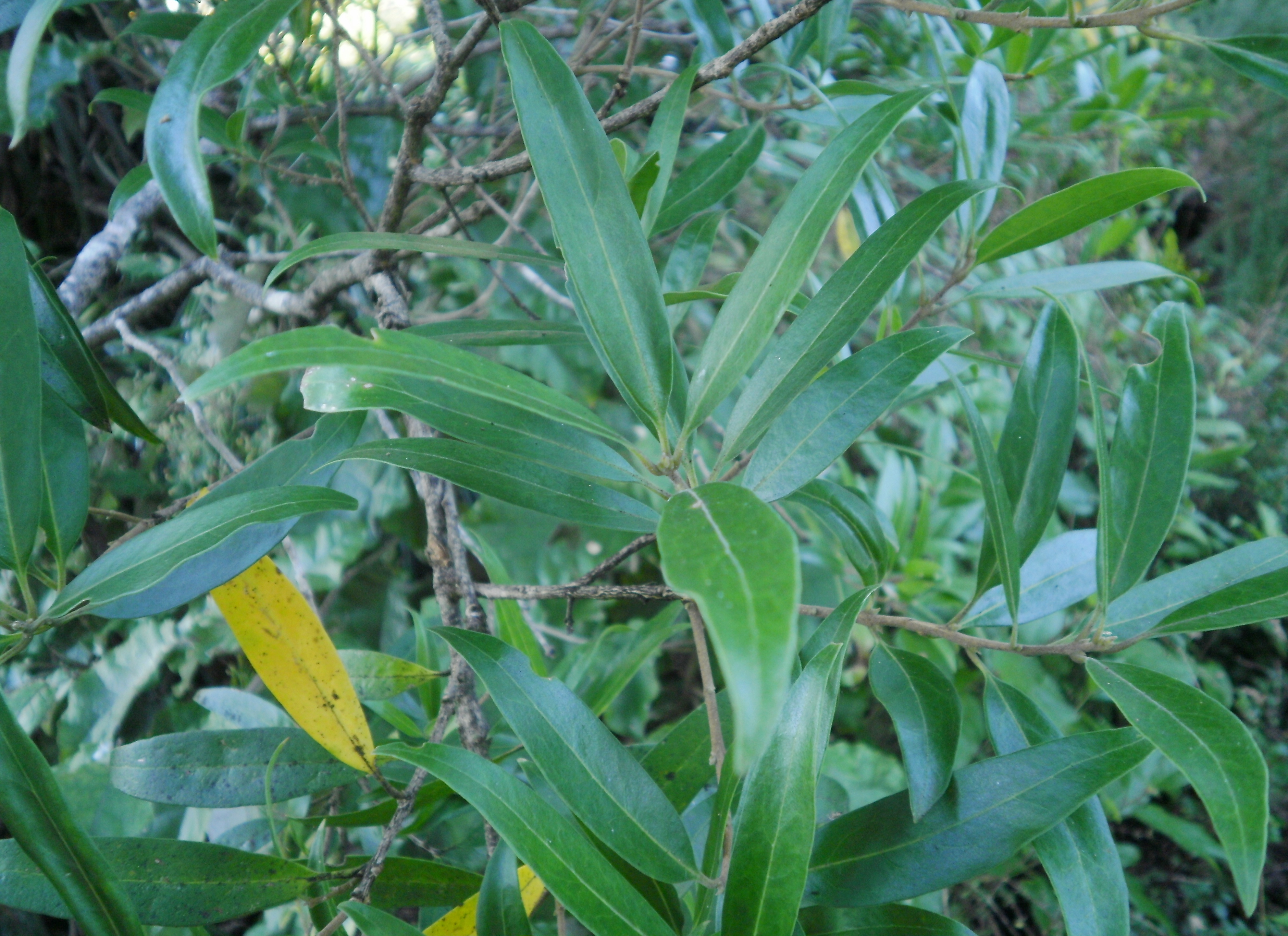 Nestegis lanceolata, white maire, near Moonshine Bridge, Upper Hutt, New Zealand.